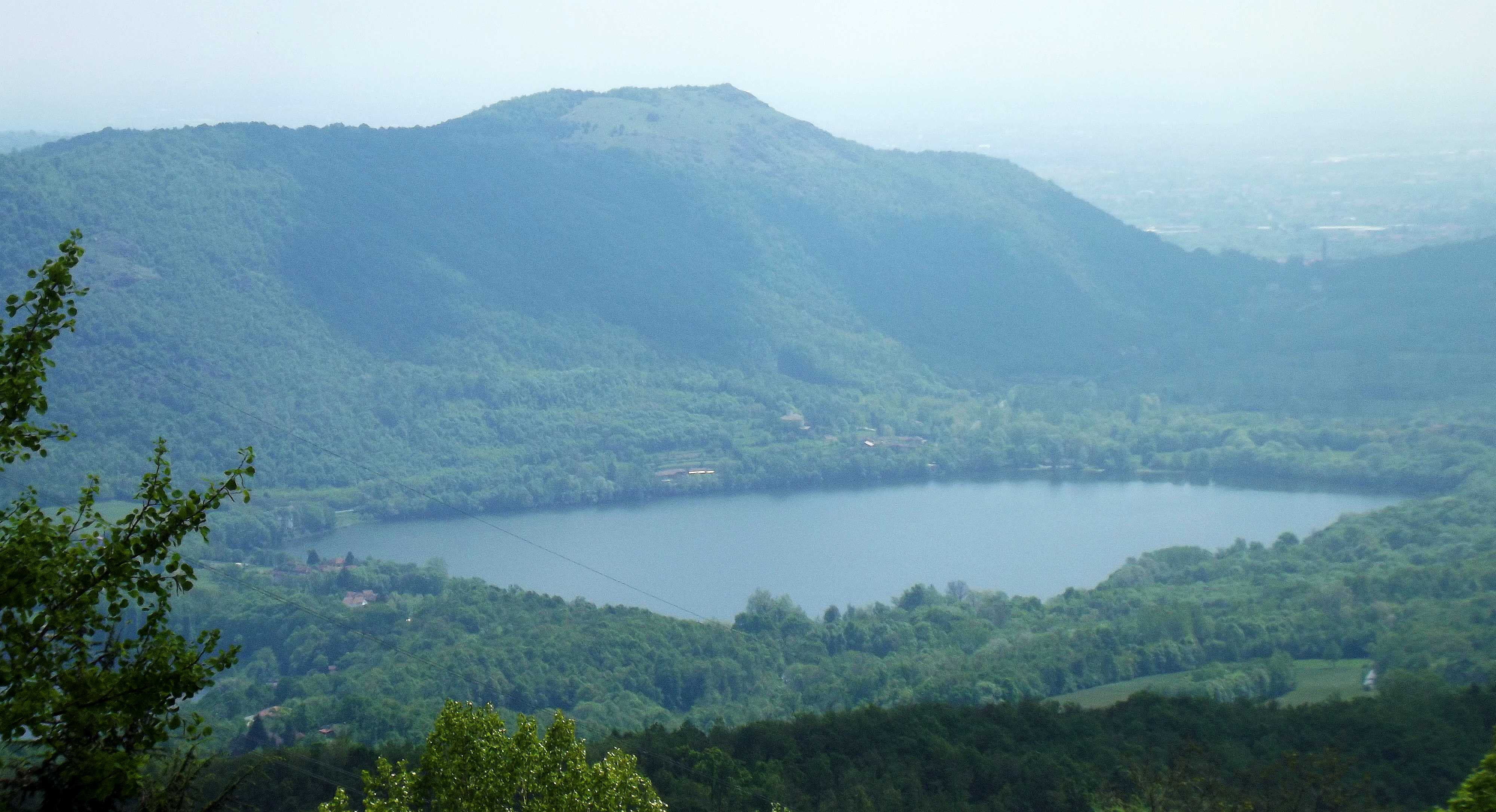 Lago Piccolo di Avigliana and monte Cuneo from Valgioie (TO, Italy)